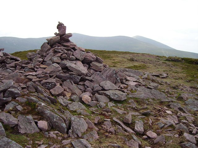 Sugarloaf Hill / Cnoc na gCloch